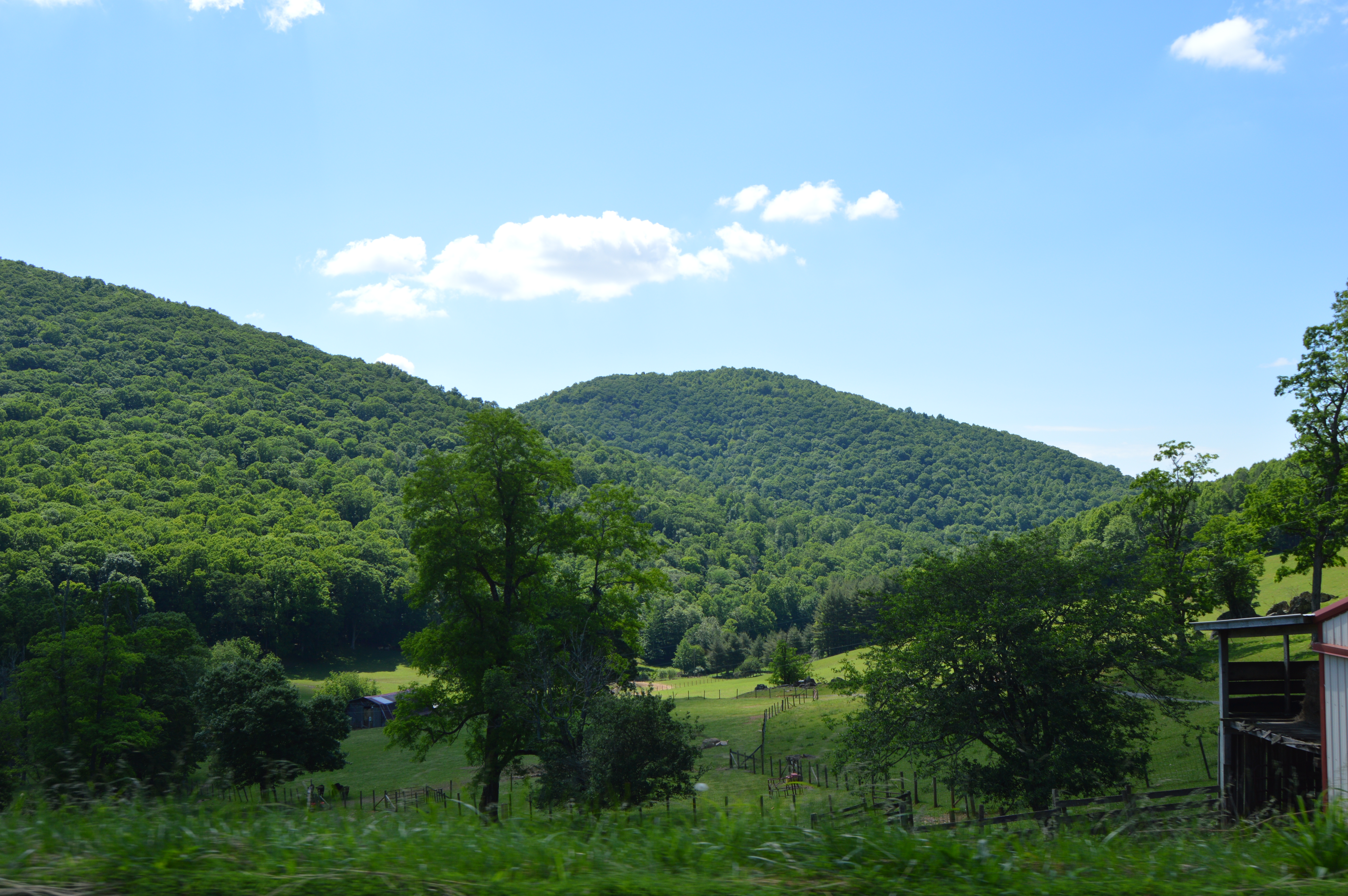 Hills in Elk Township, Ashe County, North Carolina, United States. The hill at the center is unnamed, while the hill on the left is Third Knob. Scene looks southeast from North Carolina Highway 194 near Todd.